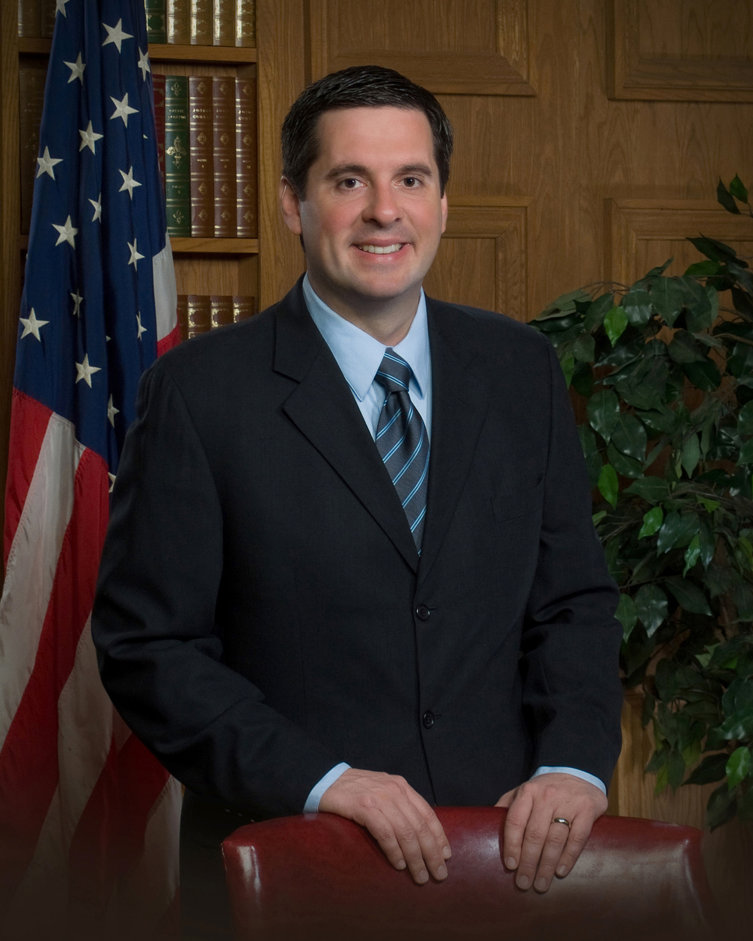 Devin Nunes, U.S. Representative from California